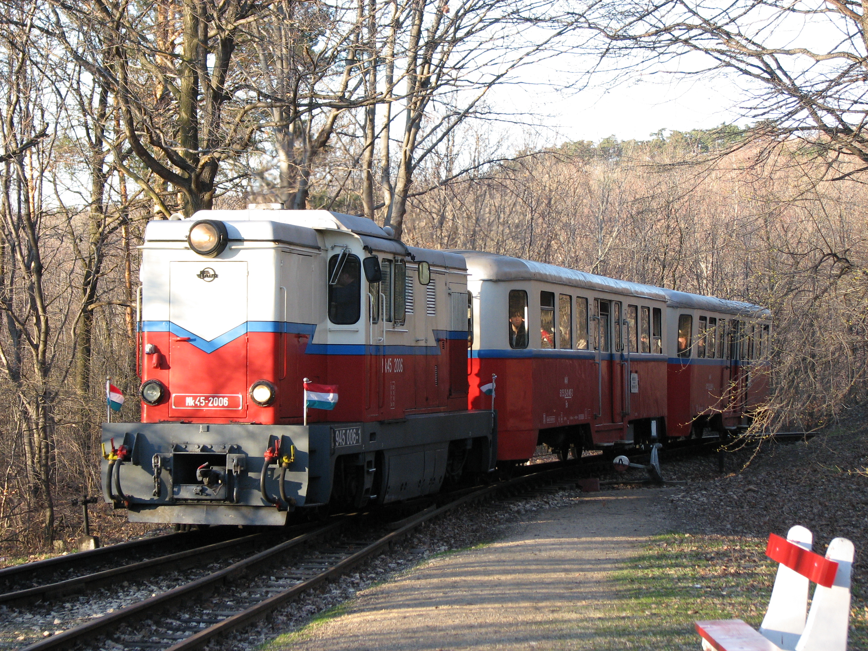 Budapest children railway, train with Mk45-2006.